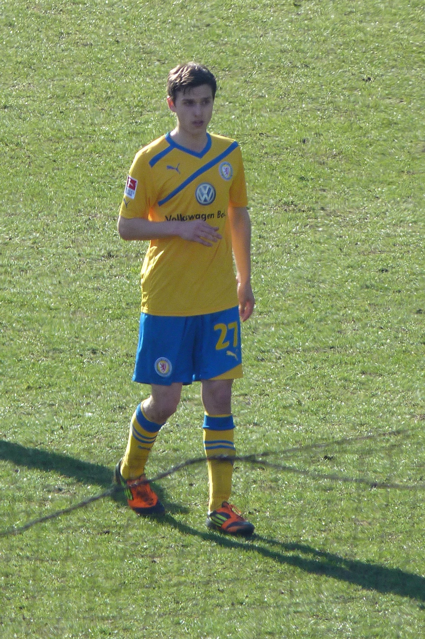 Gianluca Korte as Player from Eintracht Braunschweig